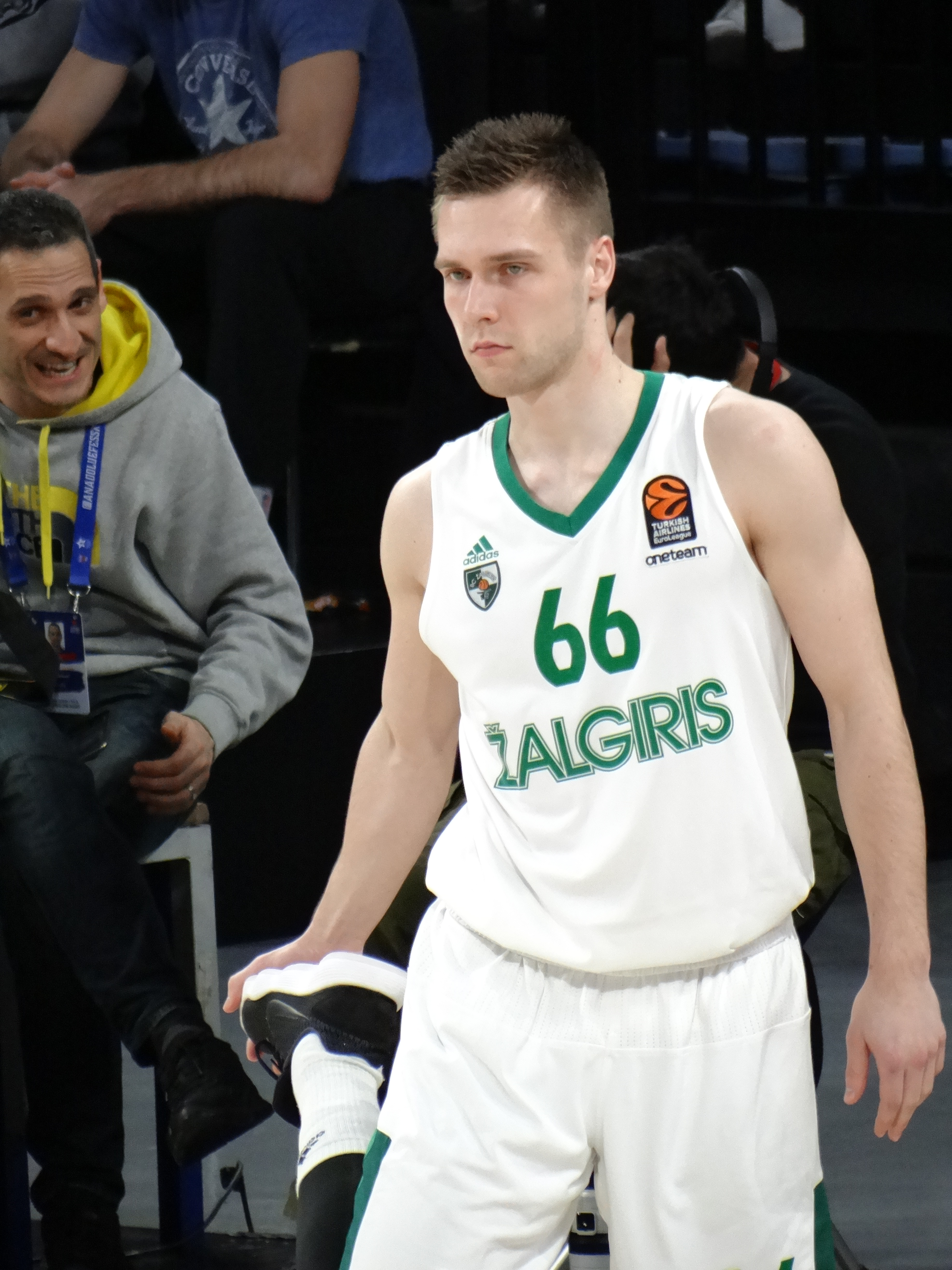 Paulius Valinskas 66 BC Žalgiris EuroLeague 20180223